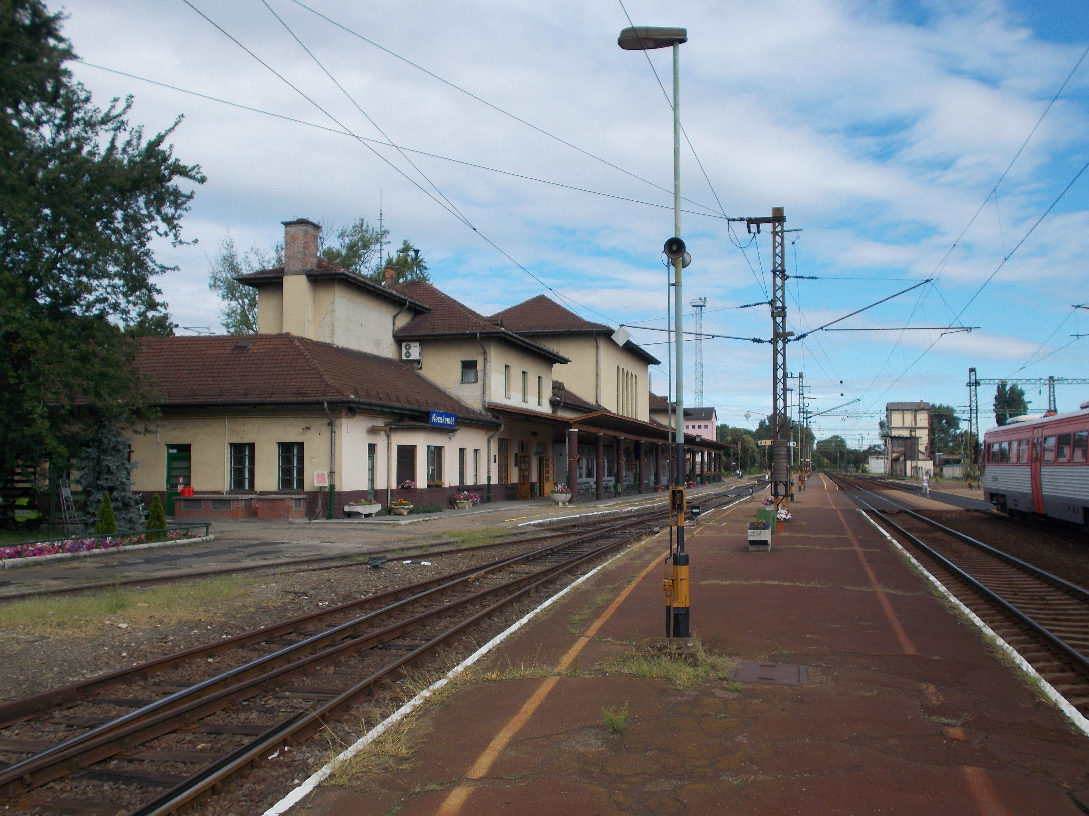 Kecskemét railway station from SE. - Kodály Sq., Hunyadiváros, Kecskemét, Bács-Kiskun County, Hungary.